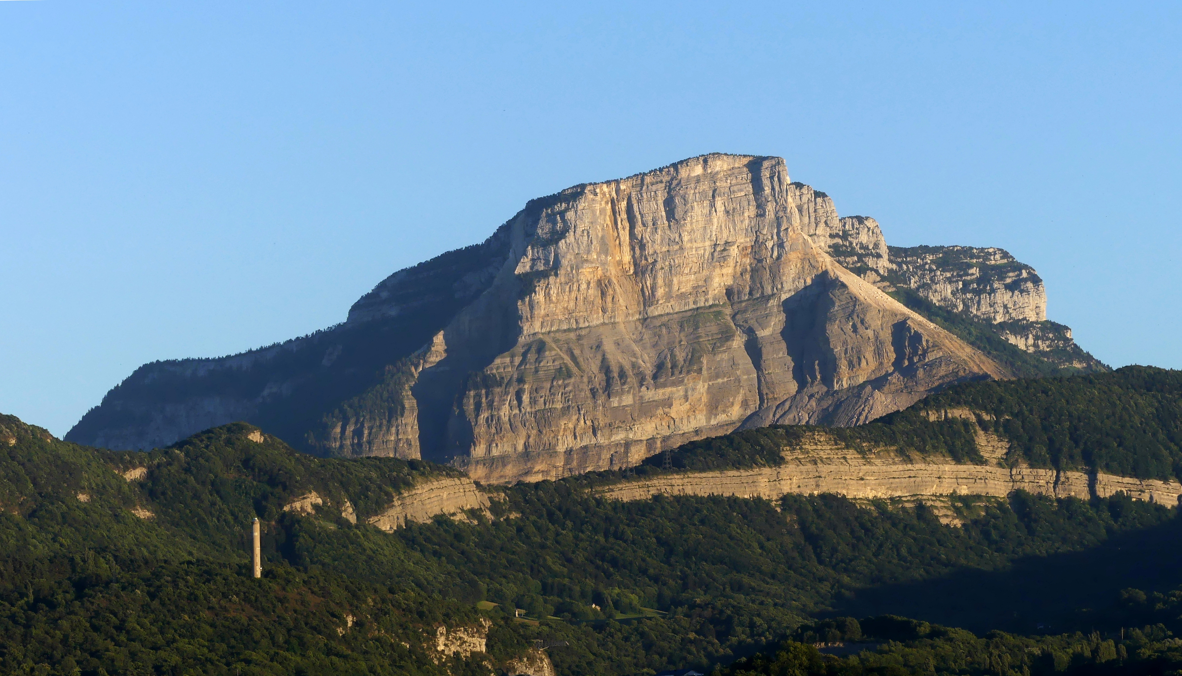 Sight, from Chambéry, of the northern cliff of the Mont Granier mount, enlighted by the setting sun during the summer solstice, in Savoie, France.